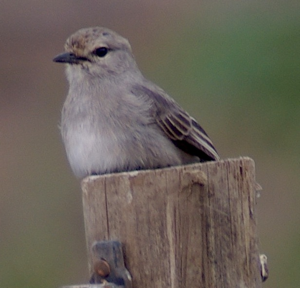 Adult African Grey Flycatcher or Large Flycatcher Bradornis microrhynchus, Amboseli National Park, Kenya. The time stamp is 10 hours too early. Sharpened quite a bit. Thanks to Brian Finch for the identification.